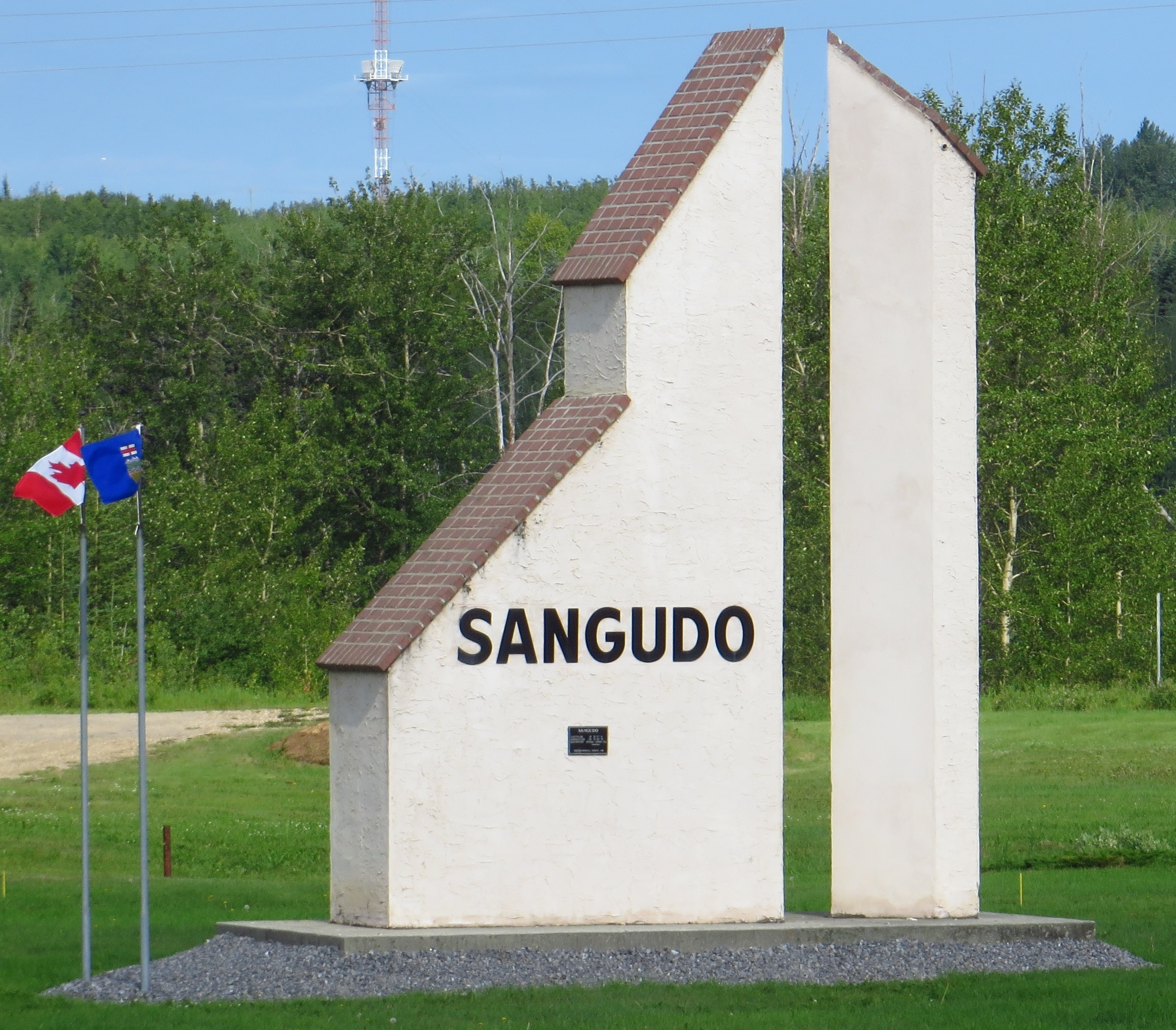 A sign welcoming drivers to Sangudo